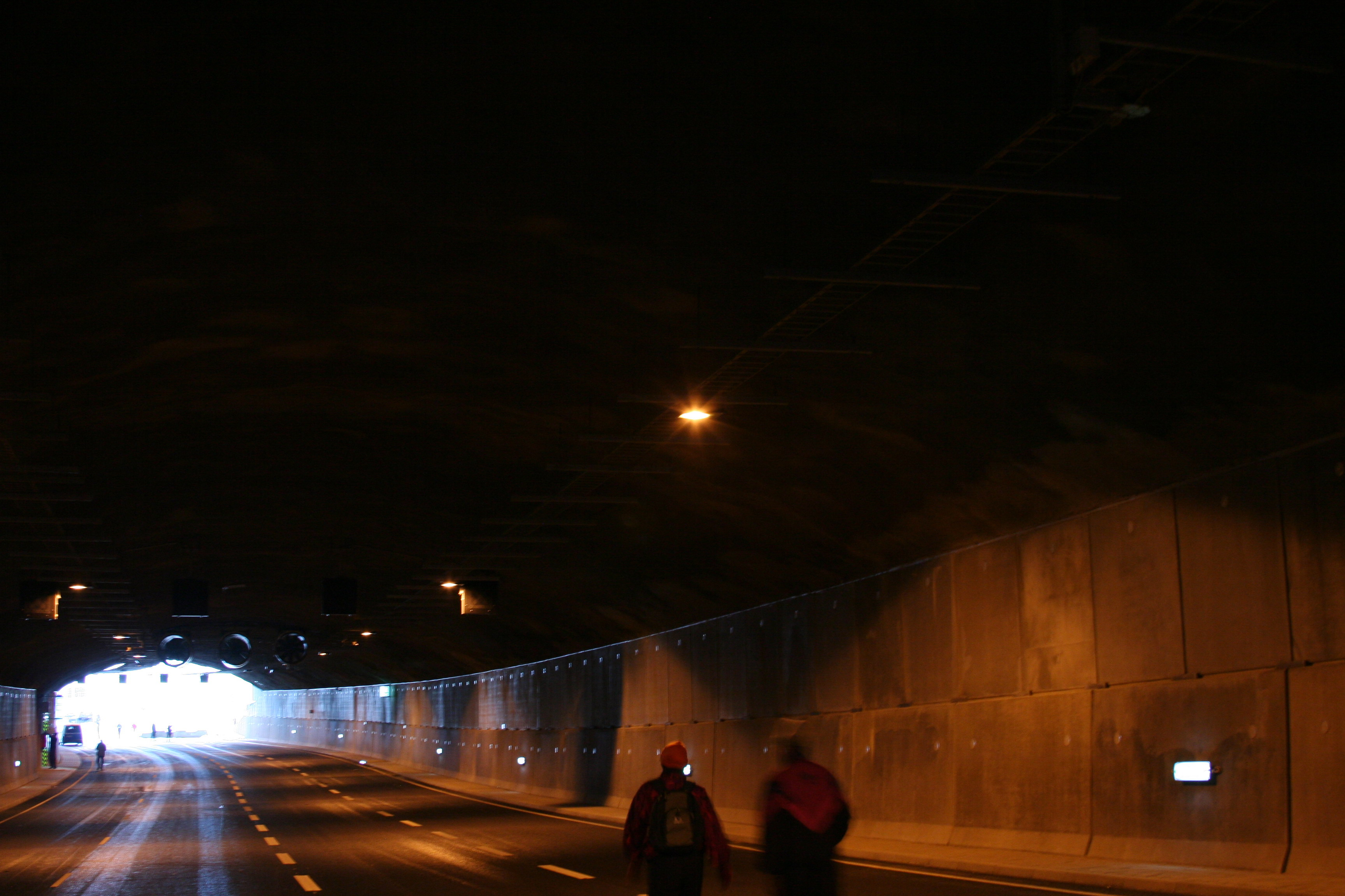 Mestarintunneli, westbound. Open doors day. It's a road tunnel on Kehä I (regional route 101) in Leppävaara, Espoo, Finland